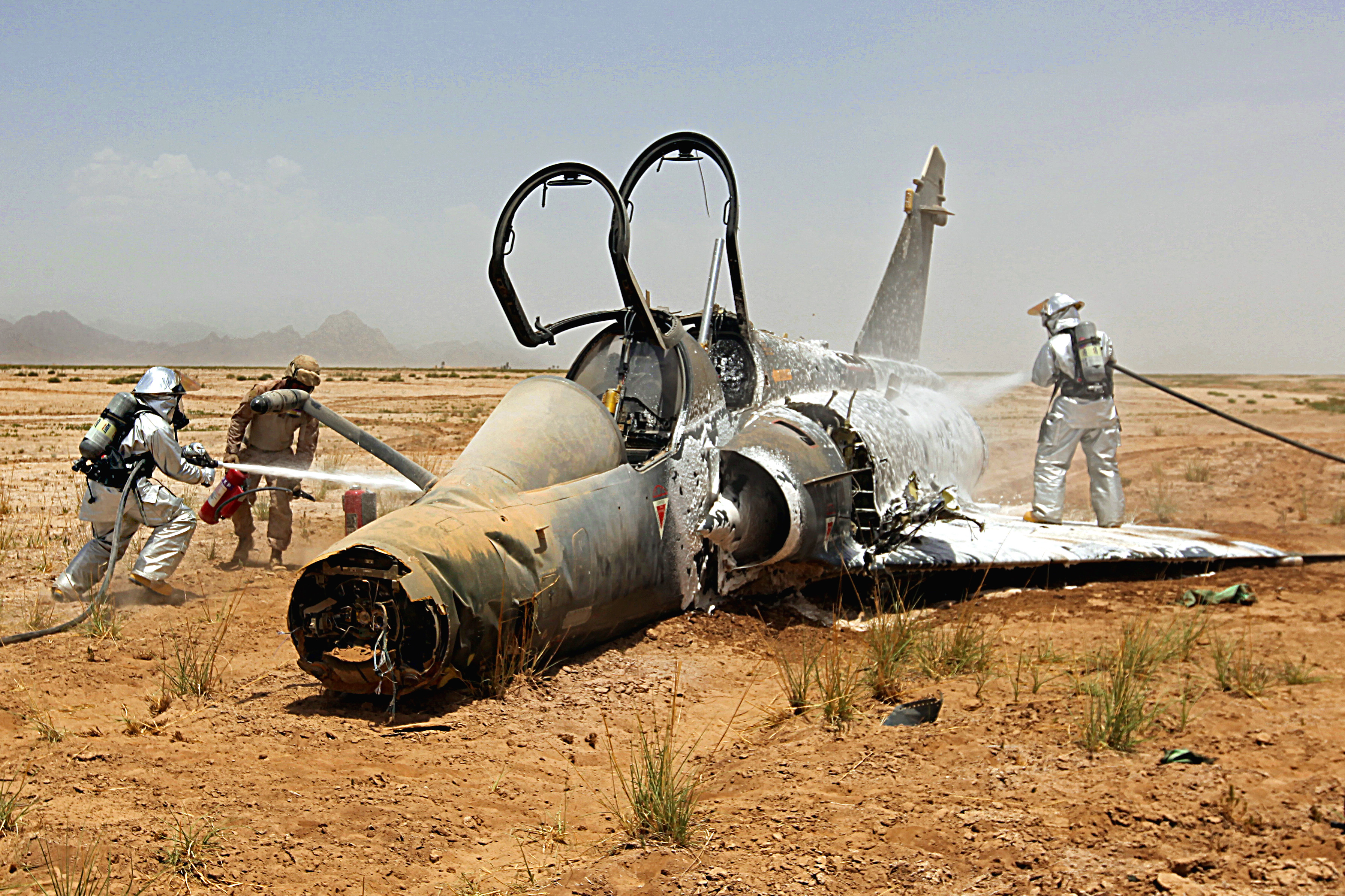 A U.S. Marine Corps Aircraft Recovery Fire Fighting team puts out the blaze after C-4 was detonated to remove the wings of a downed French F-2000 Mirage aircraft in the Bakwa District, Afghanistan, May 27, 2011.